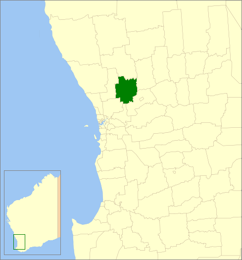 Description=Location of the Local Government Area in Western Australia